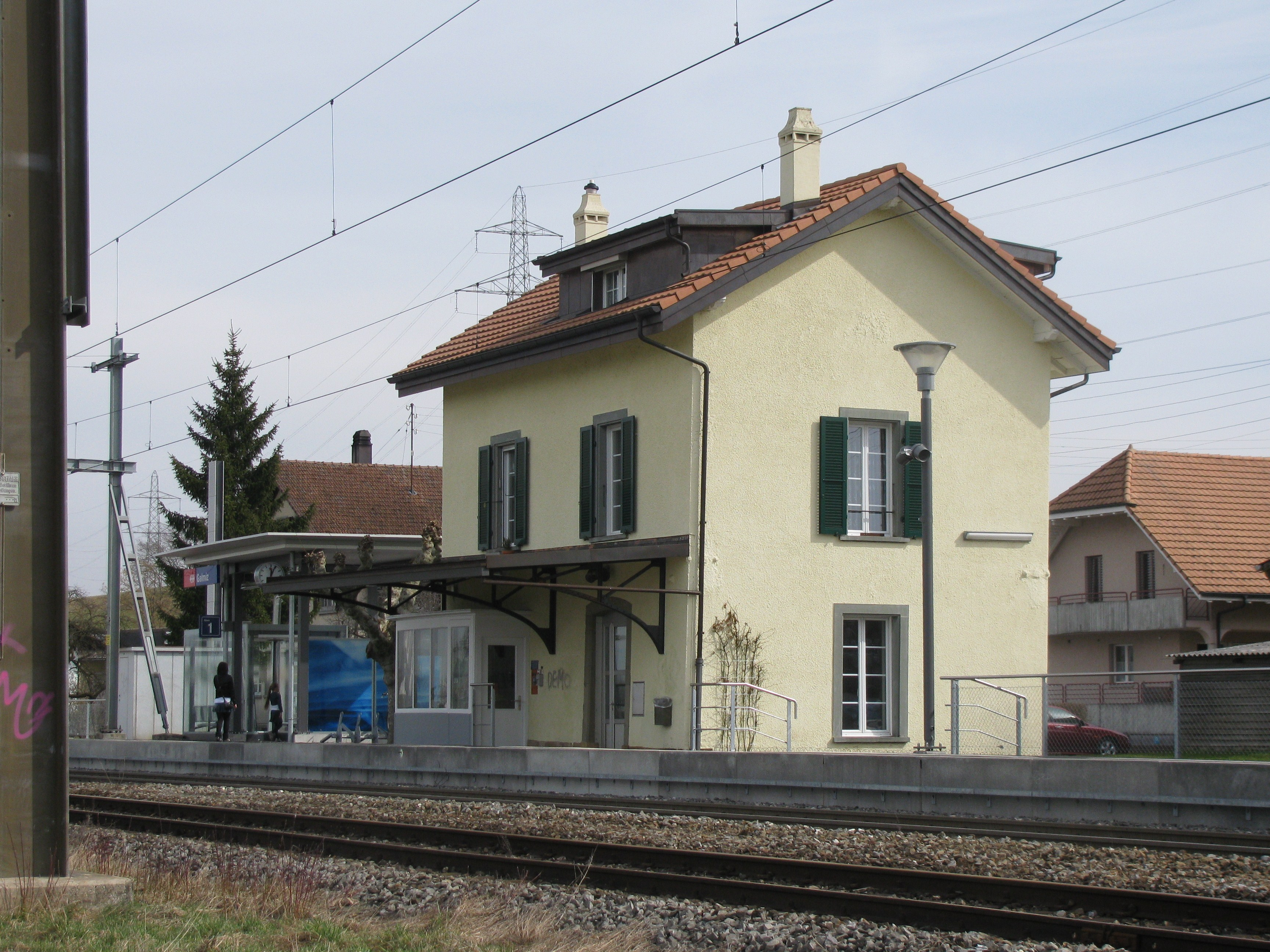 Station at Galmiz resp. Charmey (Lac) in Fribourg, Switzerland